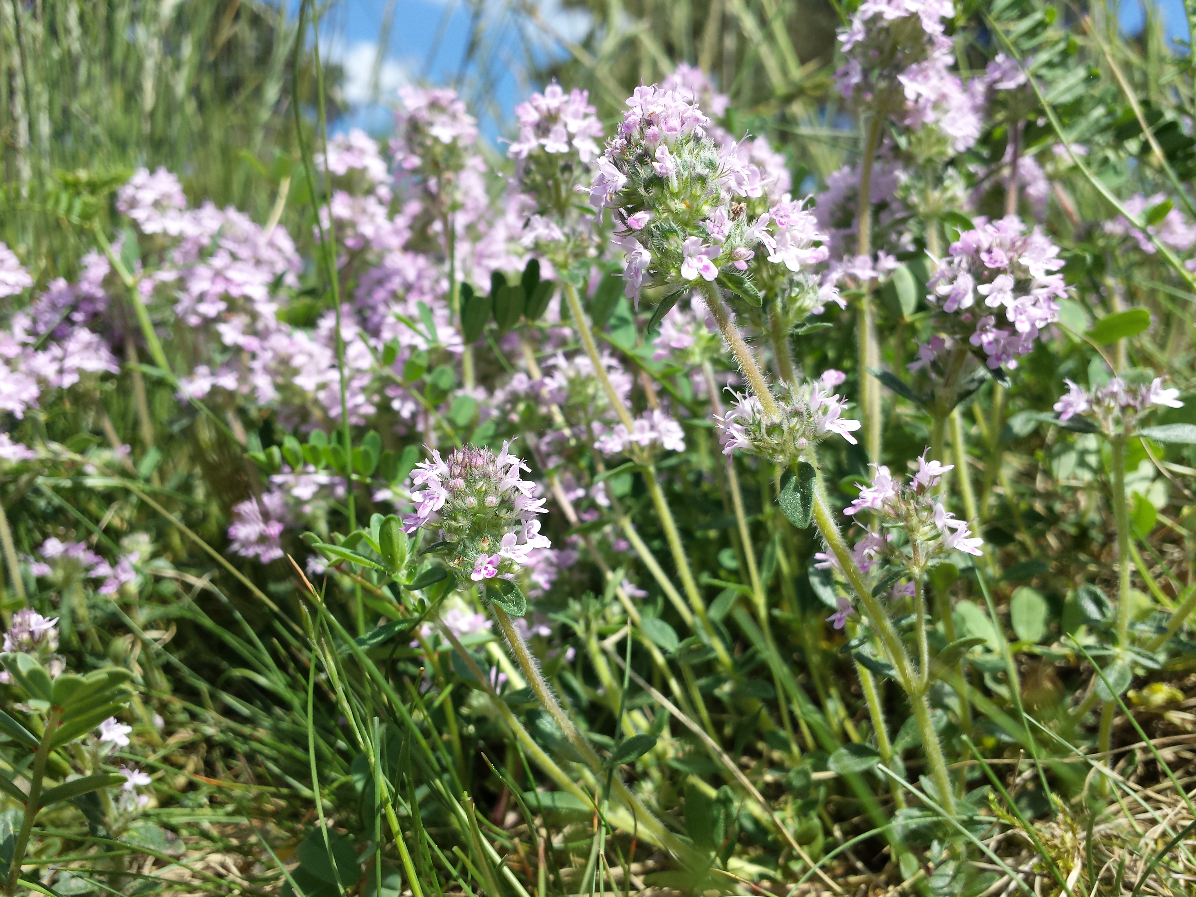 Habitus Taxonym: Thymus odoratissimus (cf., to Thymus pannonicus agg.) ss Fischer et al. EfÖLS 2008 ISBN 978-3-85474-187-9 Location: "In der Hölle" near Wetzleinsdorf, district Korneuburg, Lower Austria - ca. 250 m a.s.l. Habitat: dry grassland